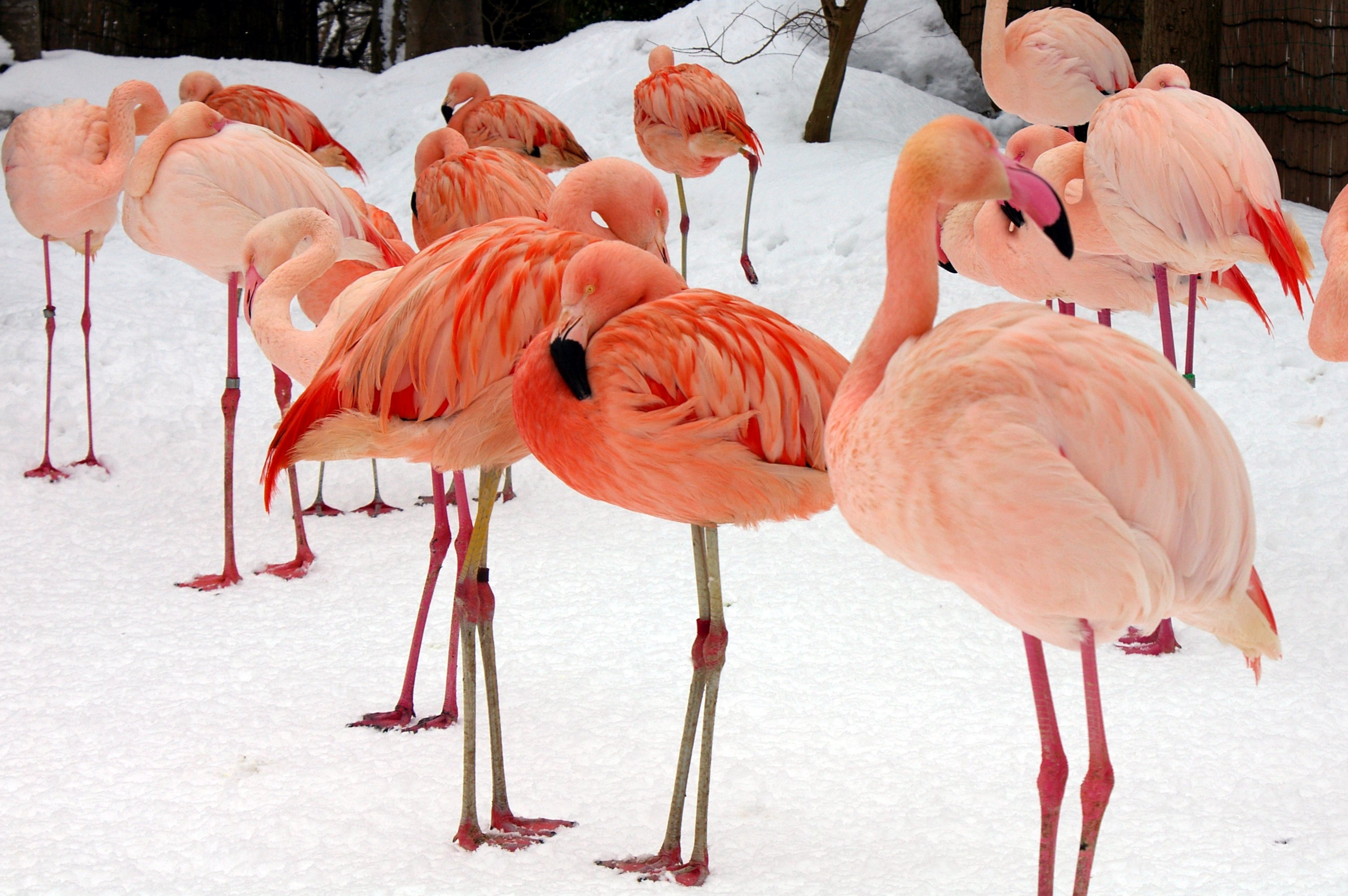 Akita Omoriyama Zoo